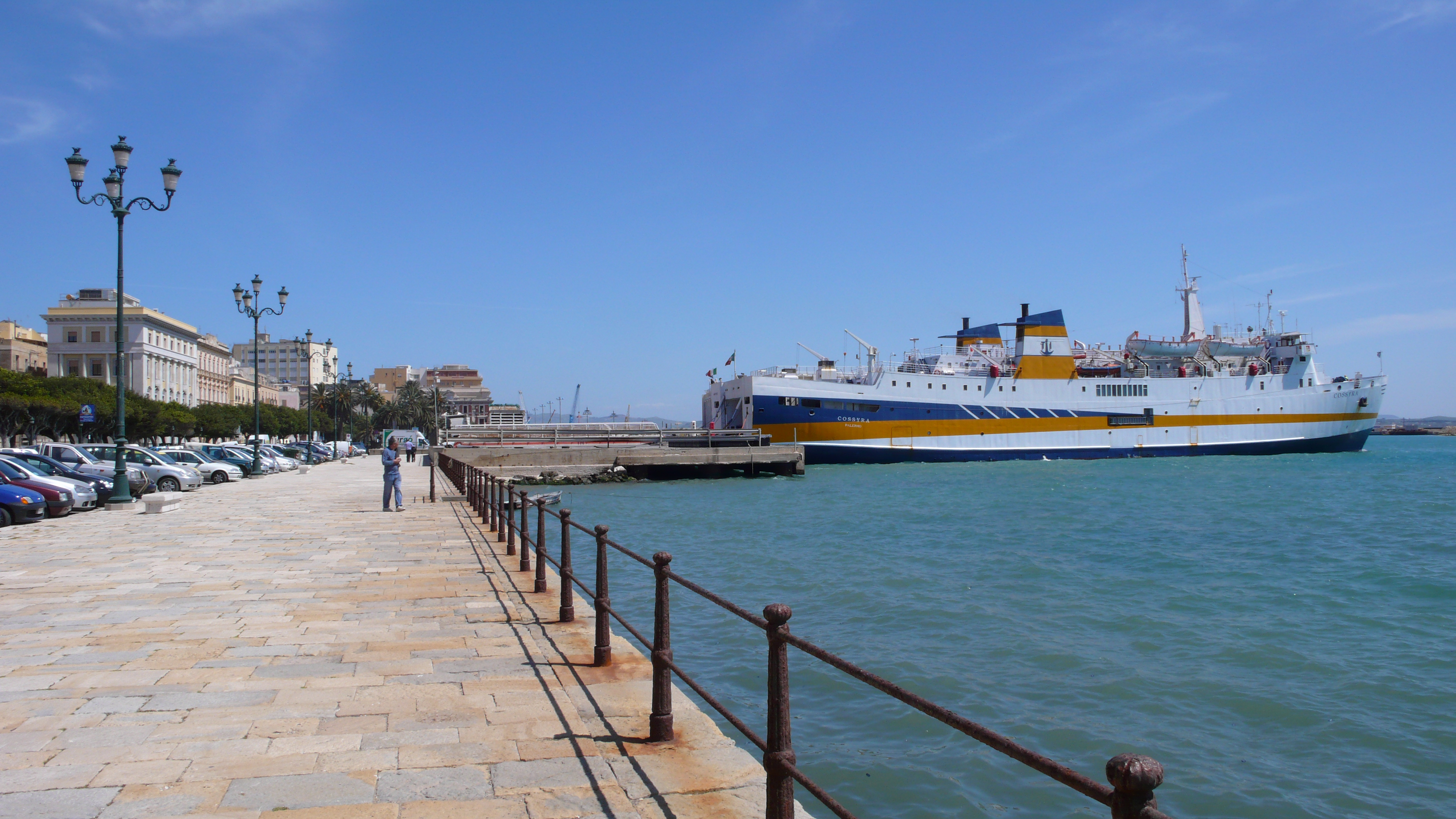 Port of Trapani, Sicily; Ferryboat; the building on the left hosts the offices of the Finance Guard and the Customs